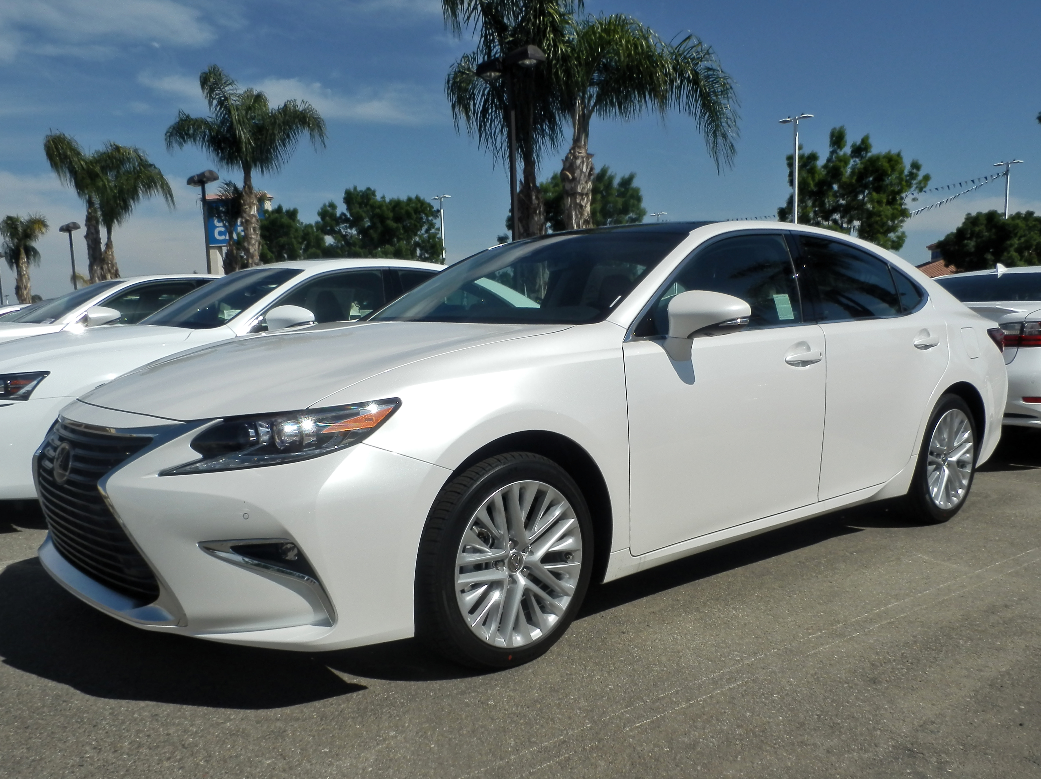 Lexus ES 300h in Bakersfield